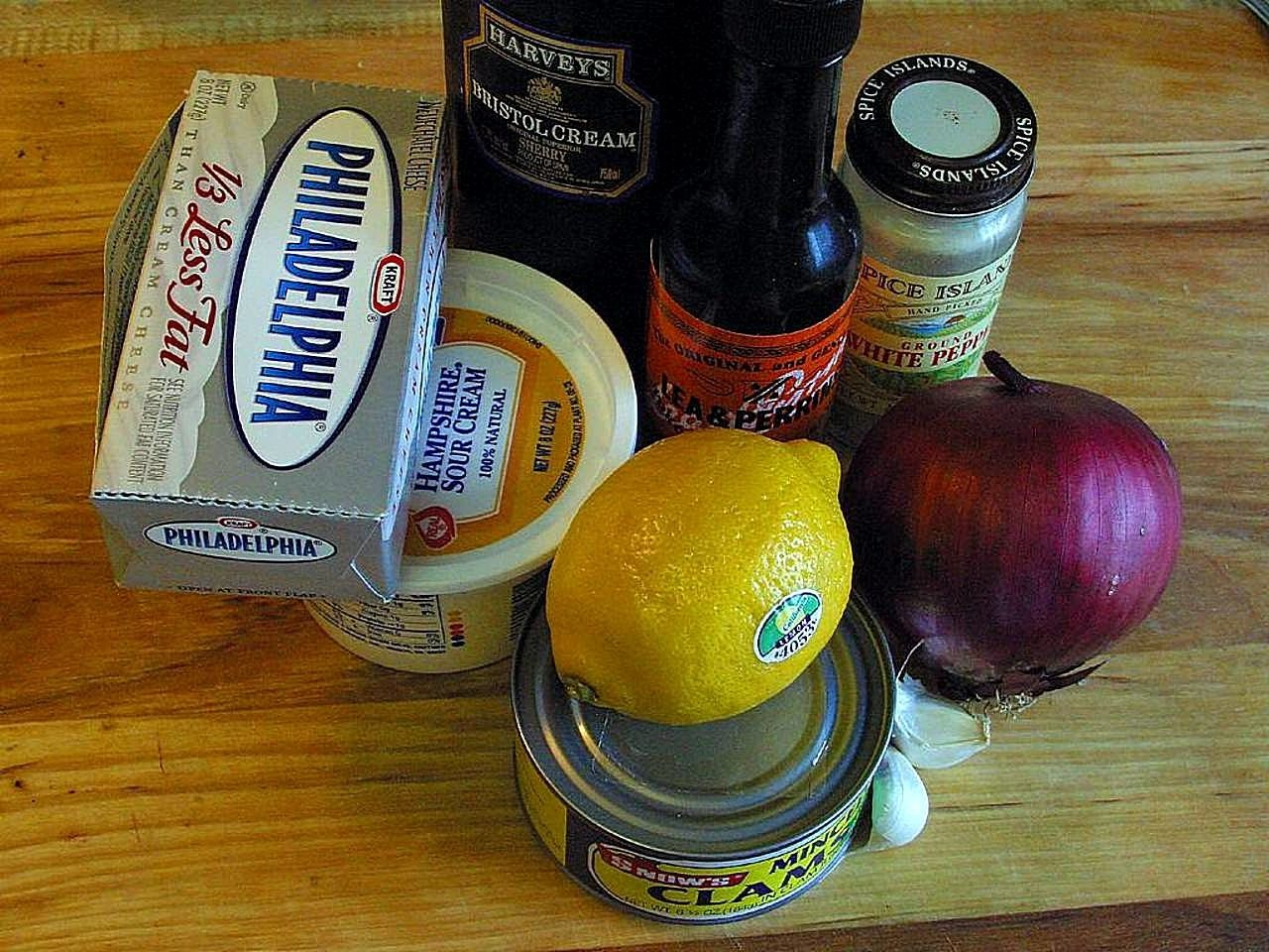 Image title: Clam dip Image from Public domain images website